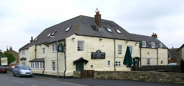 Londesborough Arms Seamer. Located on Seamer's Main Street.